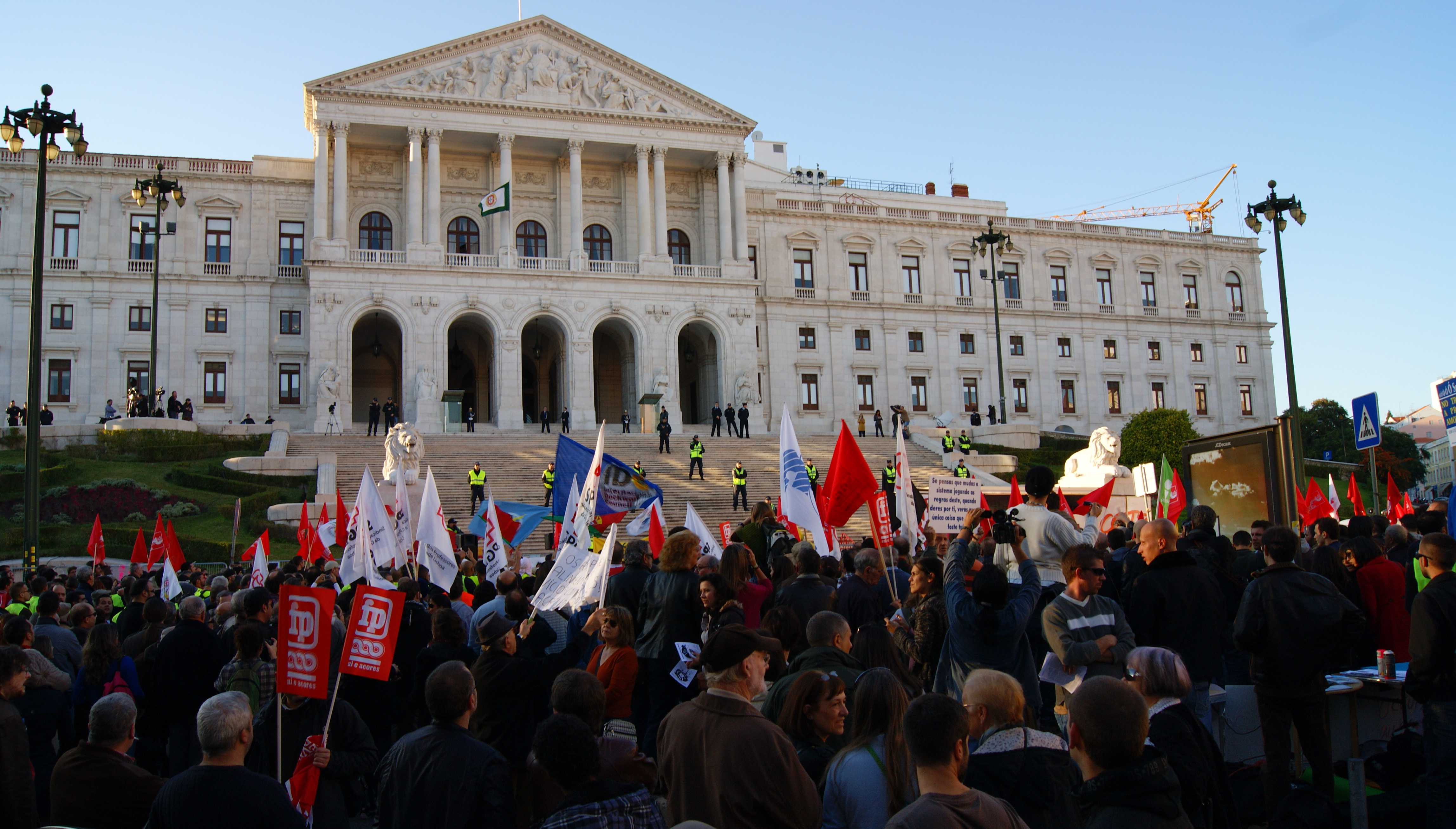 November 2011 Austerity Protest in Lisbon, Portugal